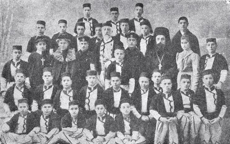 Pierce O'Mahony orphanage in Sofia, Bulgaria, 1903-1915